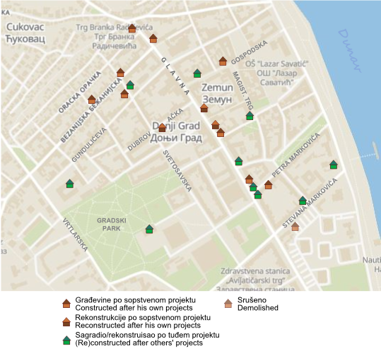 Map of buildings built by Franjo Jenč (1867–1967) in Zemun's old downtown.